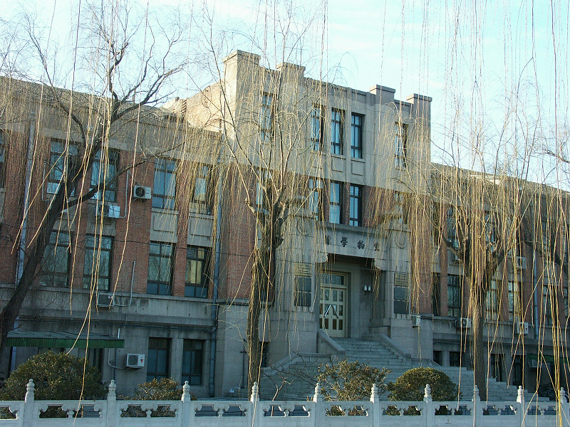 The Tsinghua University campus in Beijing, China; Department of Biology.